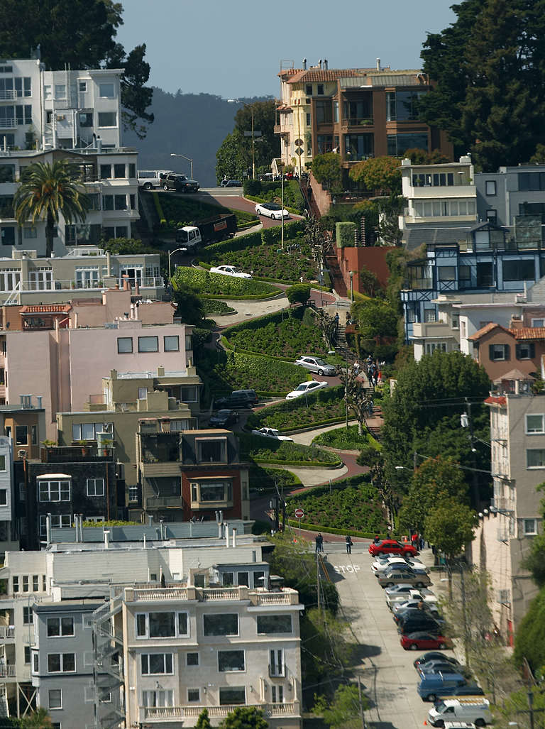 Lombard Street in San Francisco seen from the Coit Tower.